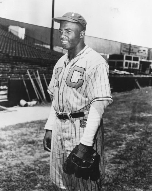 Photo of Jackie Robinson in his Kansas City Monarchs uniform.